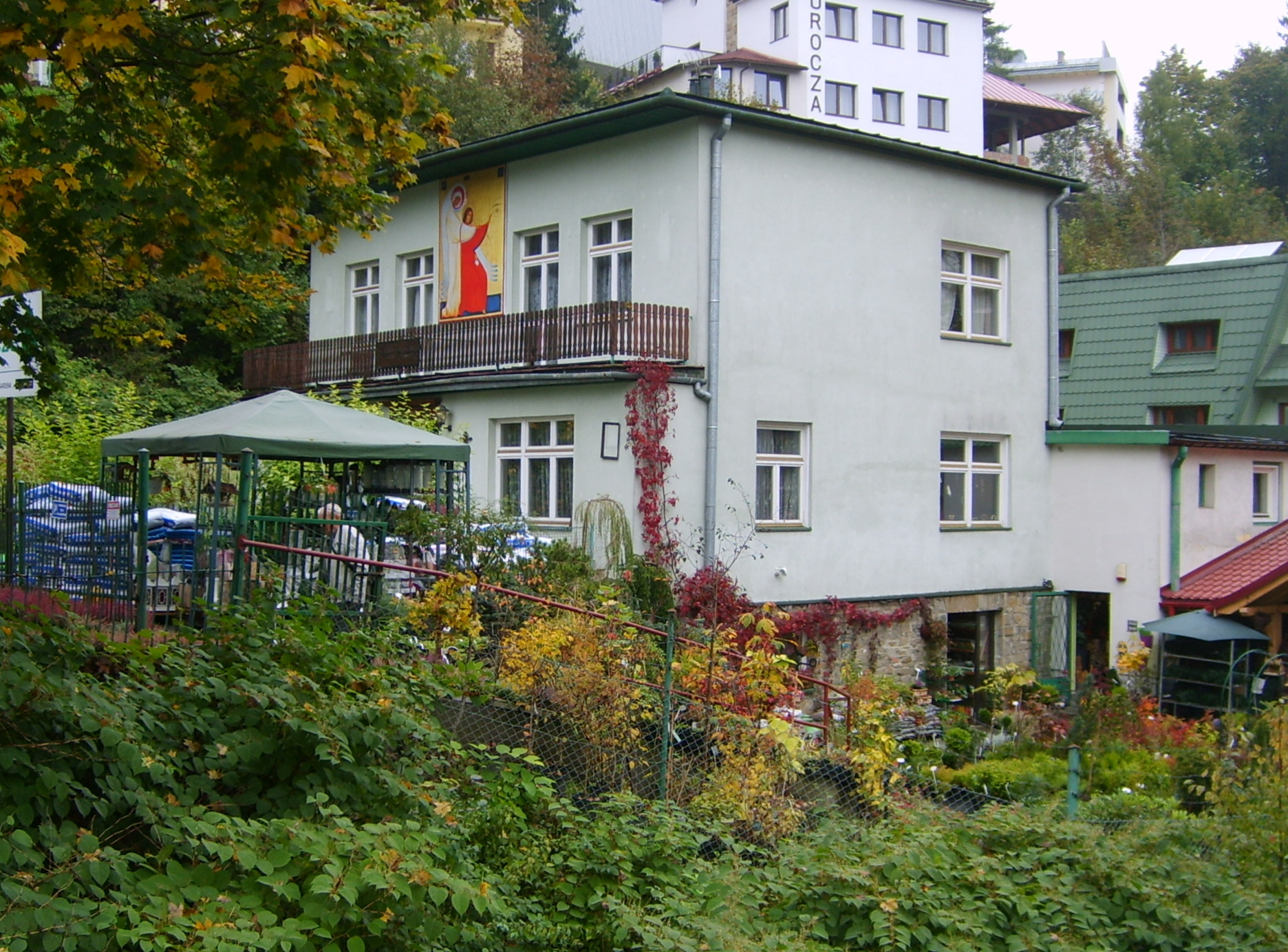 Willa Moja w Krynicy-Zdroju